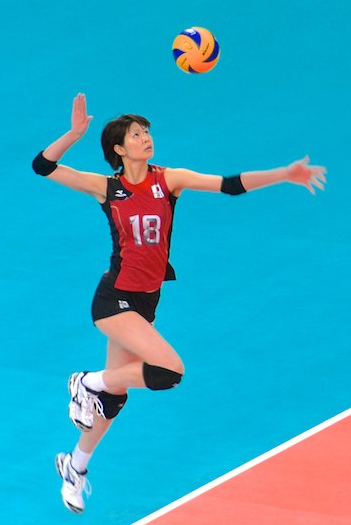 Saori Kimura at the 2012 Summer Olympics.